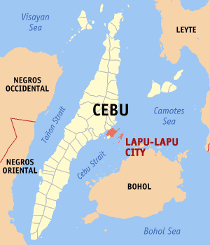 Map of Cebu showing the location of Lapu-lapu